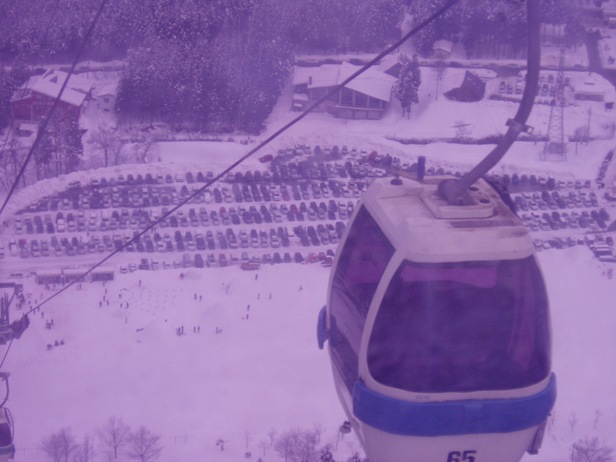 Tateyama Sanroku Ski Area, Toyama, Japan.